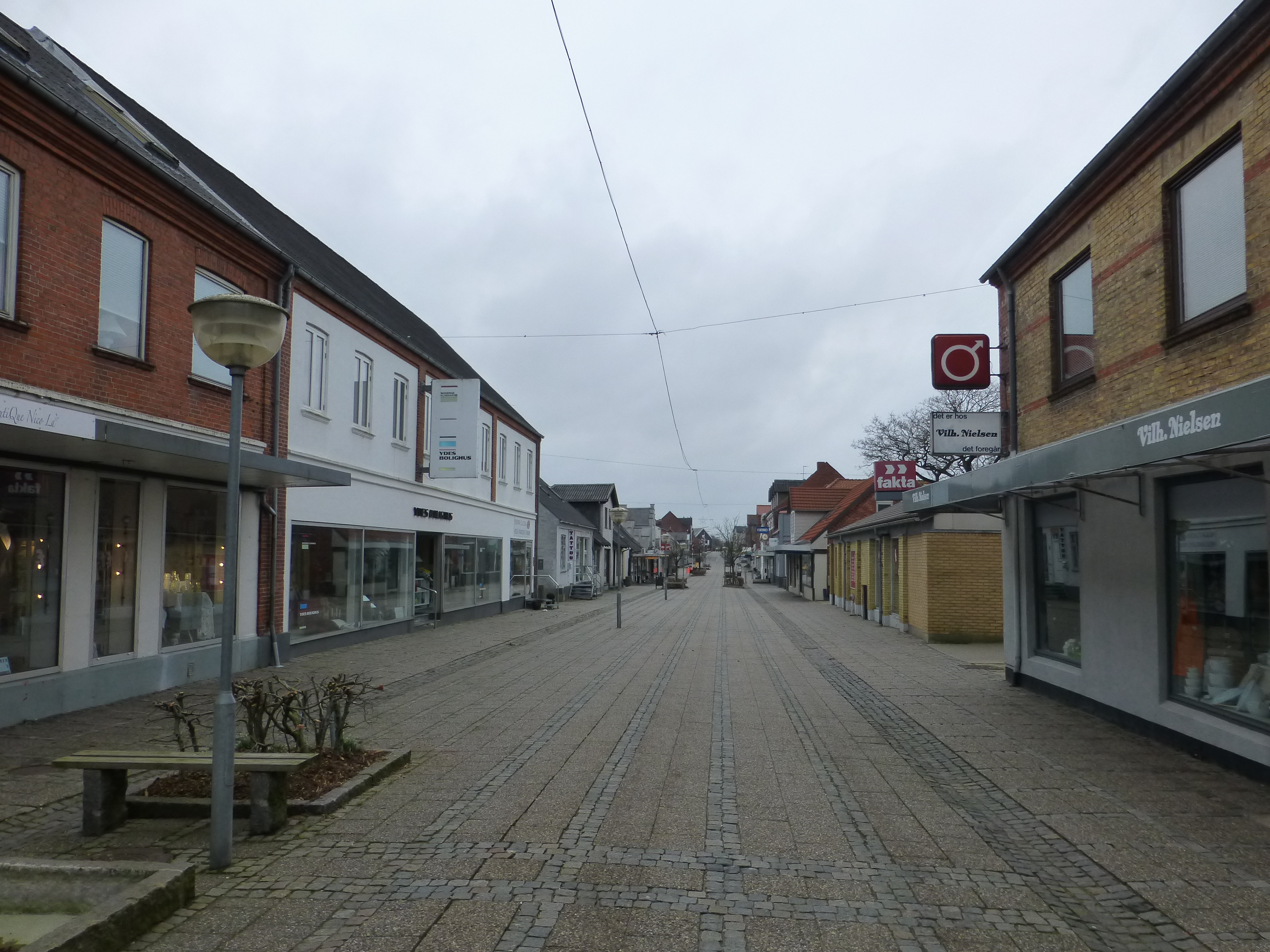 The pedestrian street Bredgade in Hurup in Thy in Denmark. It is saturday afternoon, so the shops are closed for the weekend.